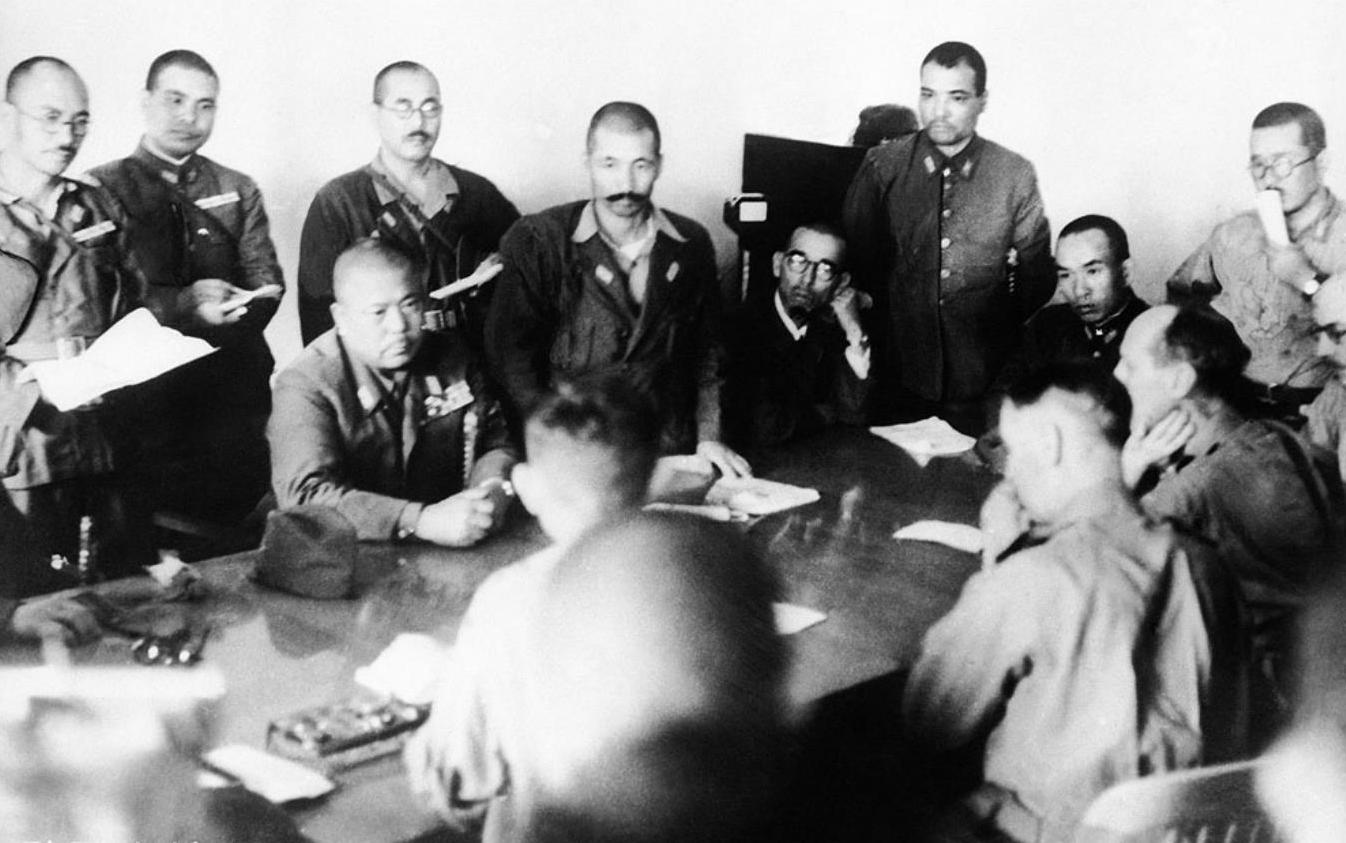 Lieutenant General Yamashita Tomoyuki and Lieutenant General A E Percival discuss surrender terms at the Ford Works Building near the Bukit Timah Road, Singapore.